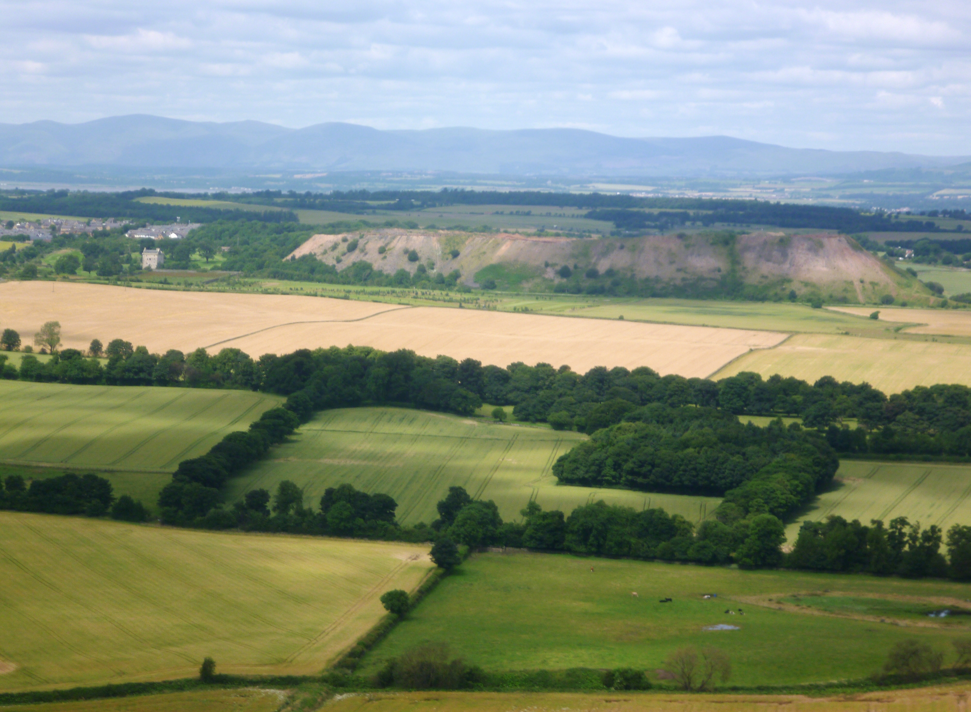 Niddry Bing (or Greendykes Bing), Winchburgh, West Lothian